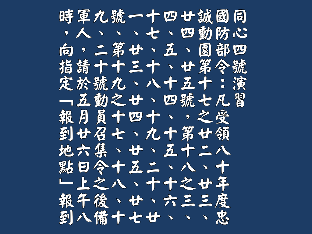 Government announce of Television.